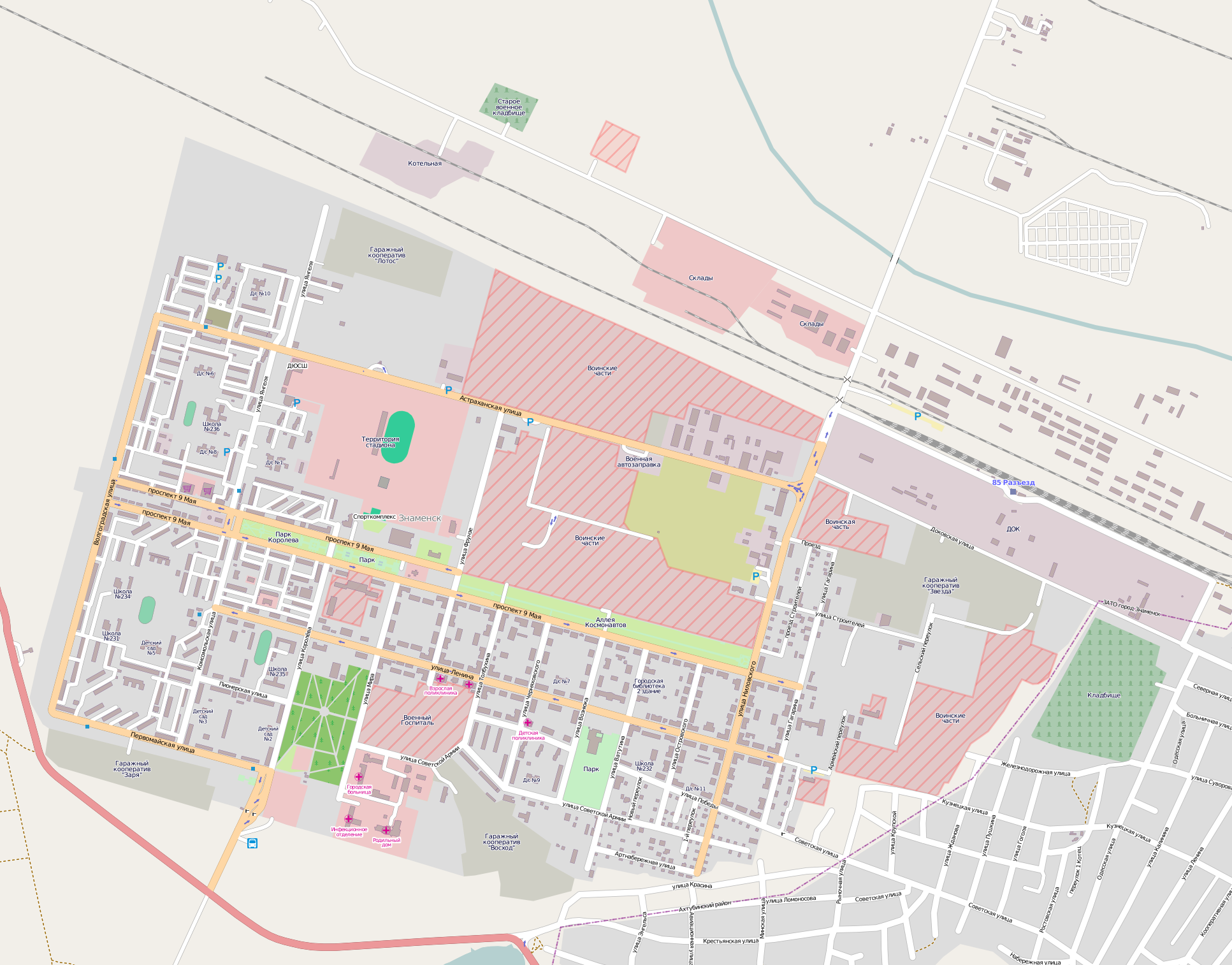 Open Street Map of the Kapustin Yar complex. Further cropped with GIMP.